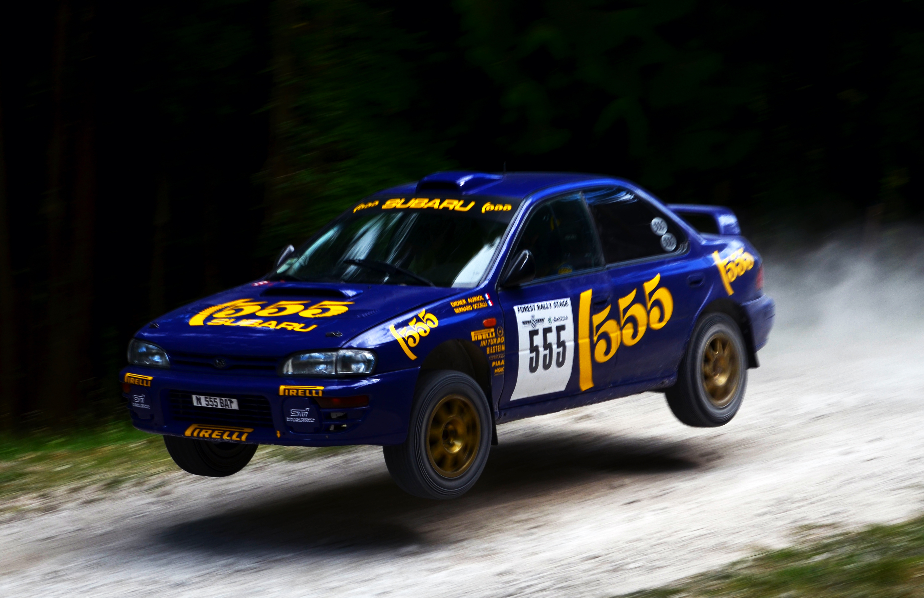 Colin McRae's former 1996 Subaru Impreza rally car at the 2014 Goodwood Festival of Speed.